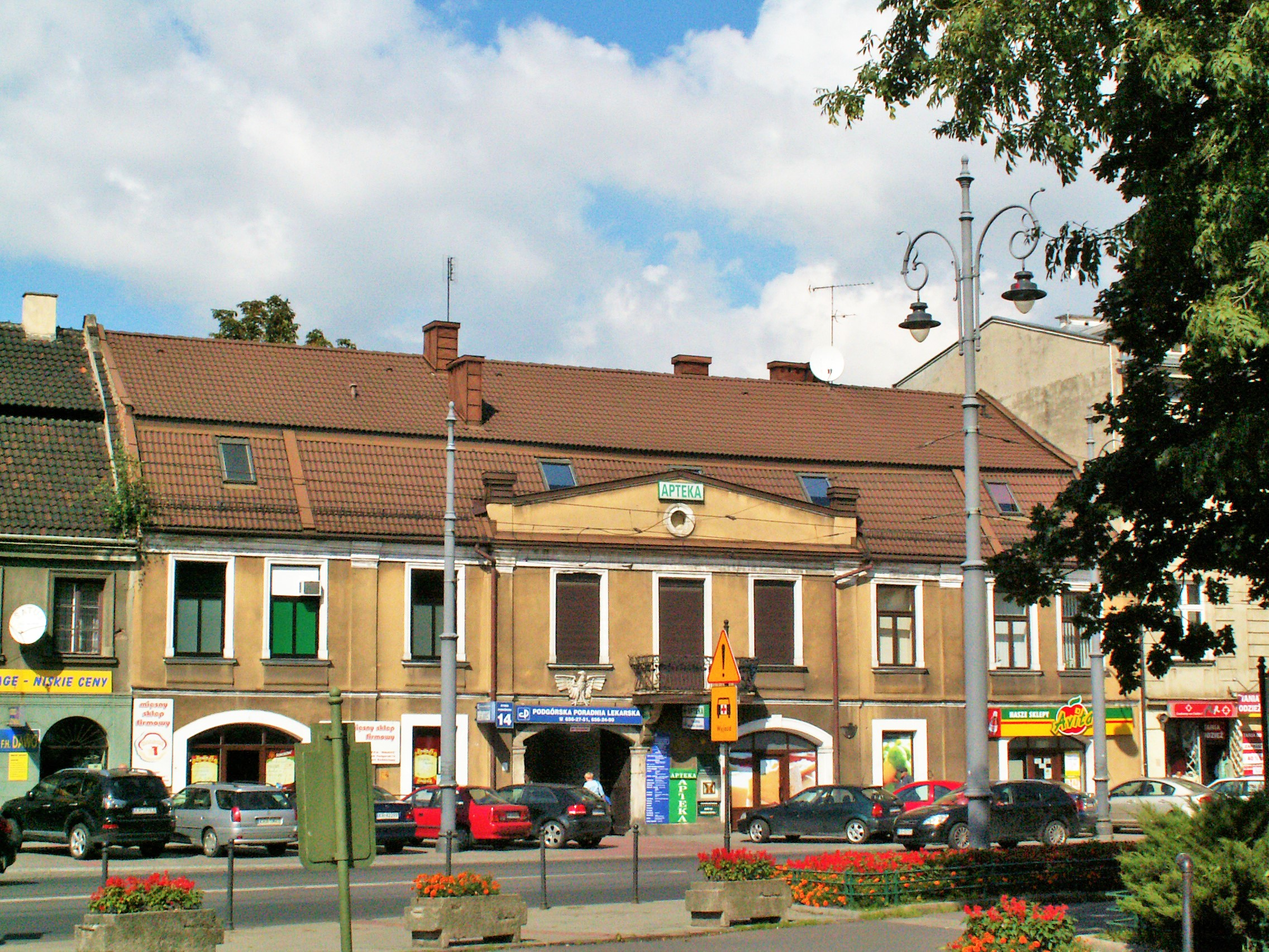 Podgorze City Hall (old), 14 Rynek Podgorski, Podgorze,Krakow,Poland